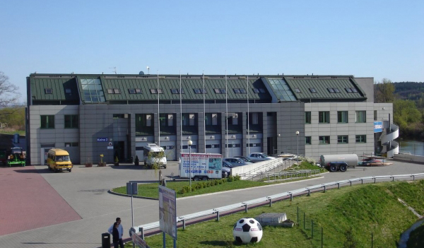 The building of white-water course in Cracow